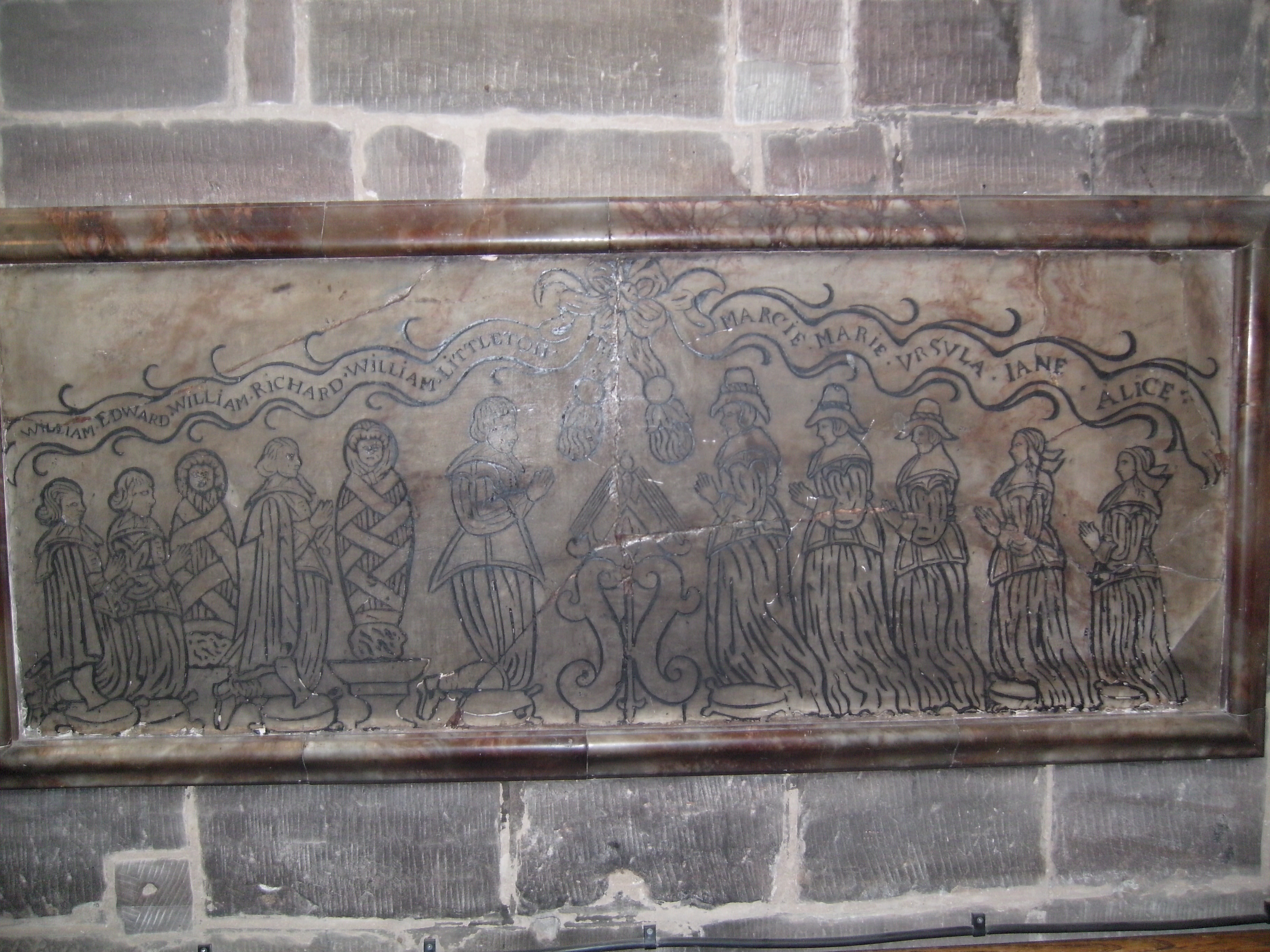 Penkridge, Staffordshire, St. Michael and All Angels Anglican parish church. Incised alabaster slab of Littleton family members in mid-17th century dress.